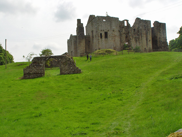 Barden Tower from the north The photograph was taken on the minor road running towards Barden Bridge.